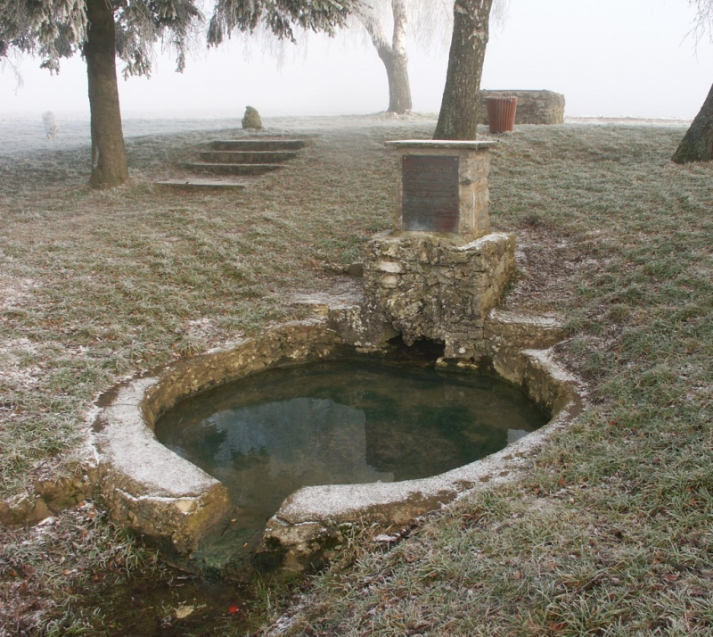 The Source of Jagst, a river in Baden-Württemberg (Germany).